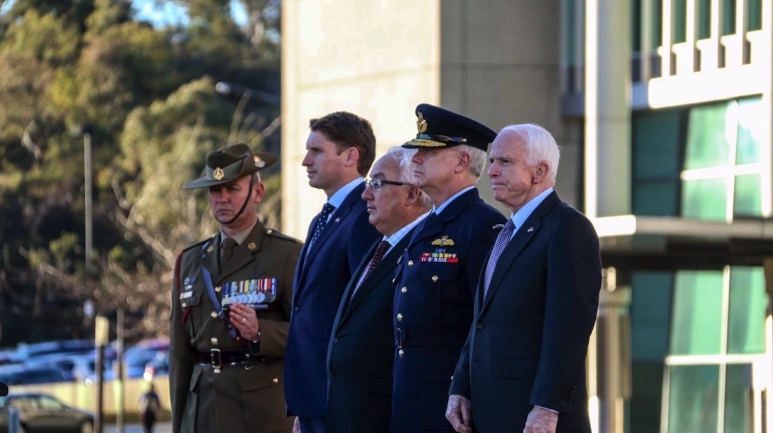 Andrew Hastie MP with Senator John McCain Australian-American Memorial Canberra 29 May 2017 (DB)